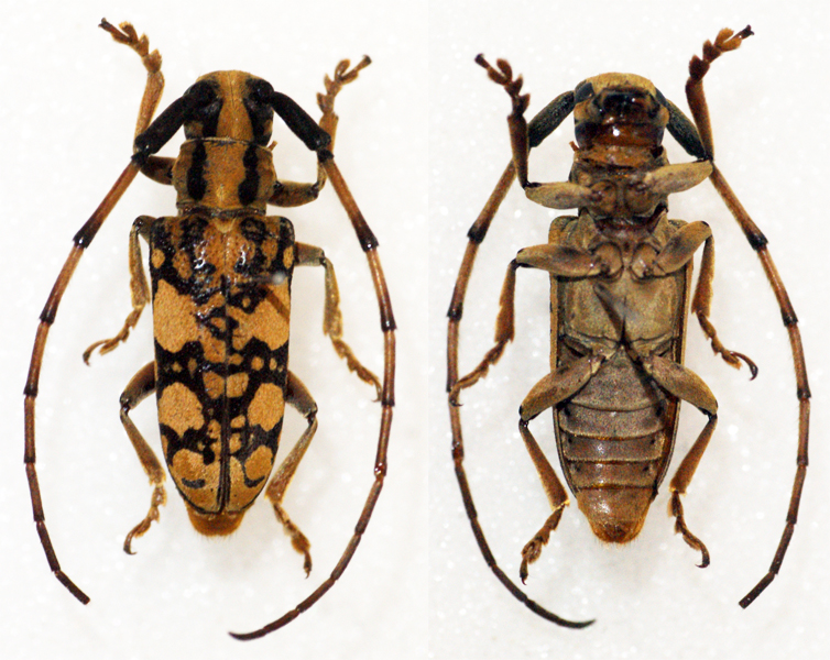 Pascoe,1857 Sex: Male Data: 08-2011 - Cameron Highlands - Malaysia